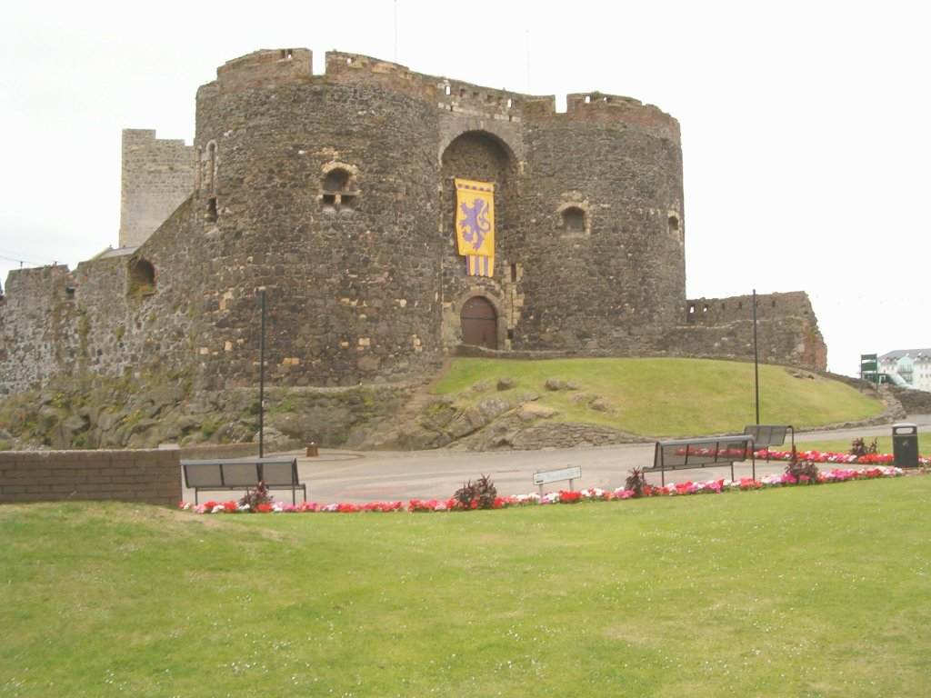 Carrickfergus Castle is a Norman castle in Northern Ireland, situated in the town of Carrickfergus in County Antrim, on the shore of Belfast Lough. Besieged in turn by the Scots, Irish, English and French, the castle played an important military role until 1928 and remains one of the best preserved medieval structures in the whole of Ireland.